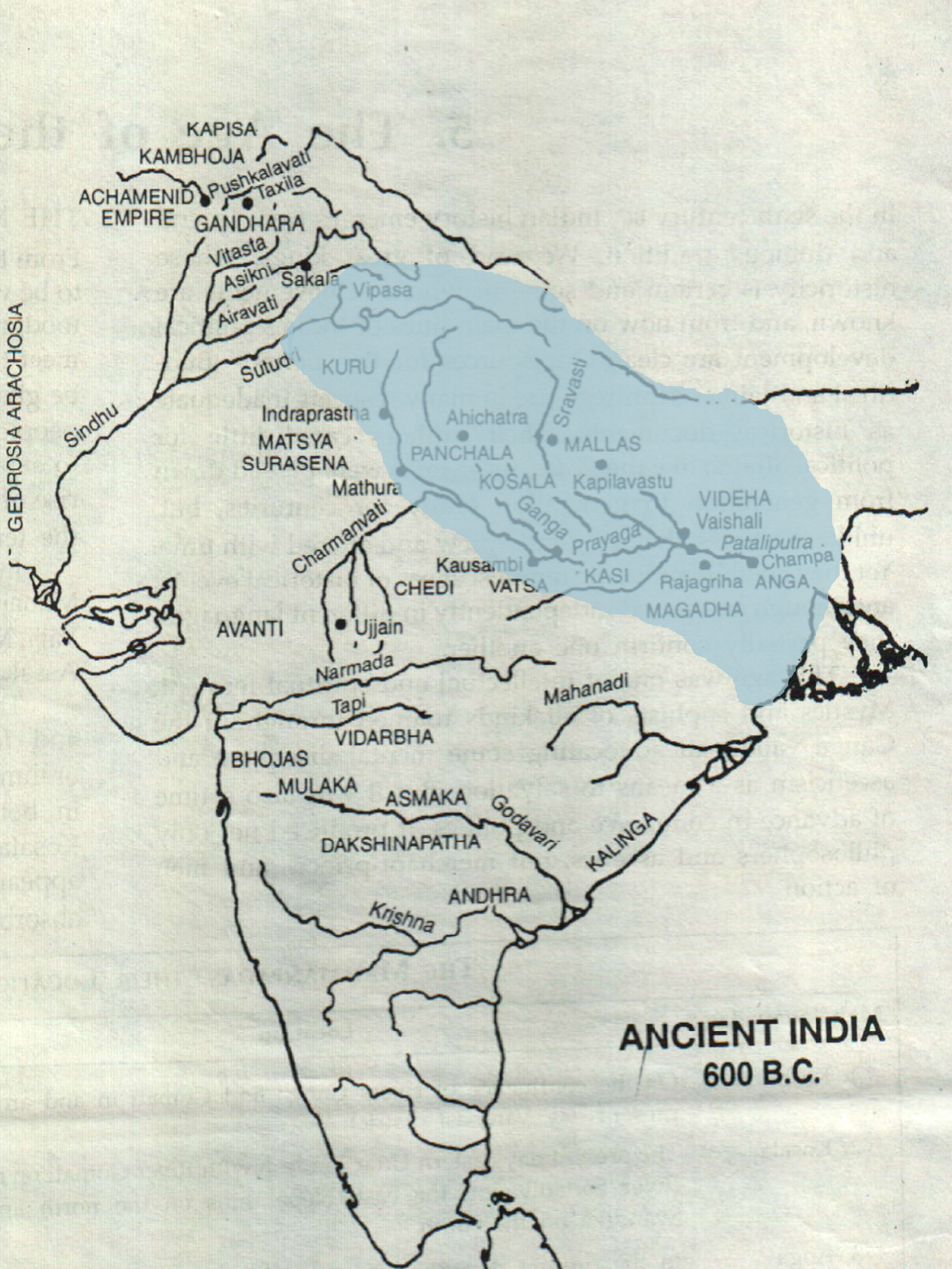 Map of 600BC India with colored area as approx. Ajatasatru's Kingdom.